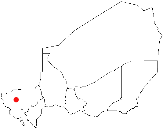 Tillabéri, Niger Location Map; created with the GIMP. Made by User:Acntx.